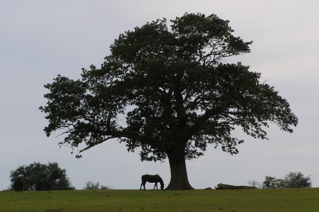 Isolated oak at Backley Holmes, New Forest This mature oak tree stands alone on the re-seeded lawn at Backley Holmes. With the pony beneath it, its looks like a not-to-scale version of the New Forest National Park logo.